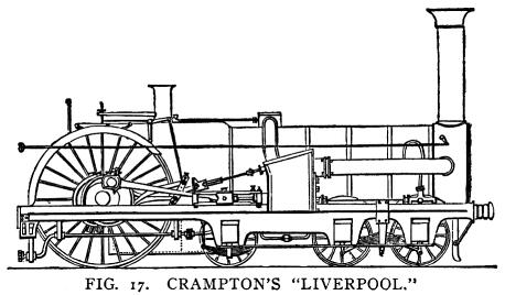 Cramptons's "LIVERPOOL"